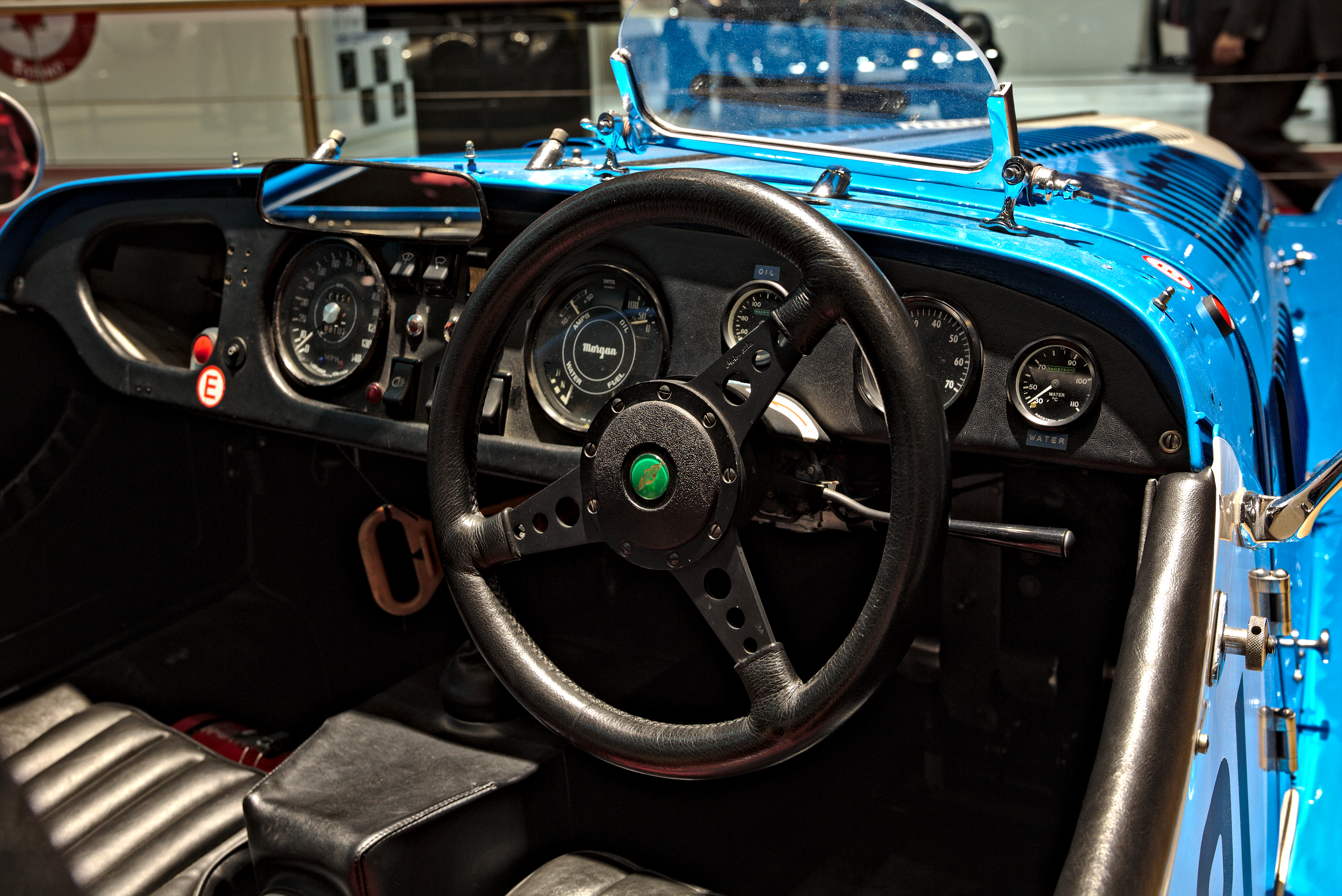 Morgan Plus 8 MMC11 at Geneva Motorshow 2018